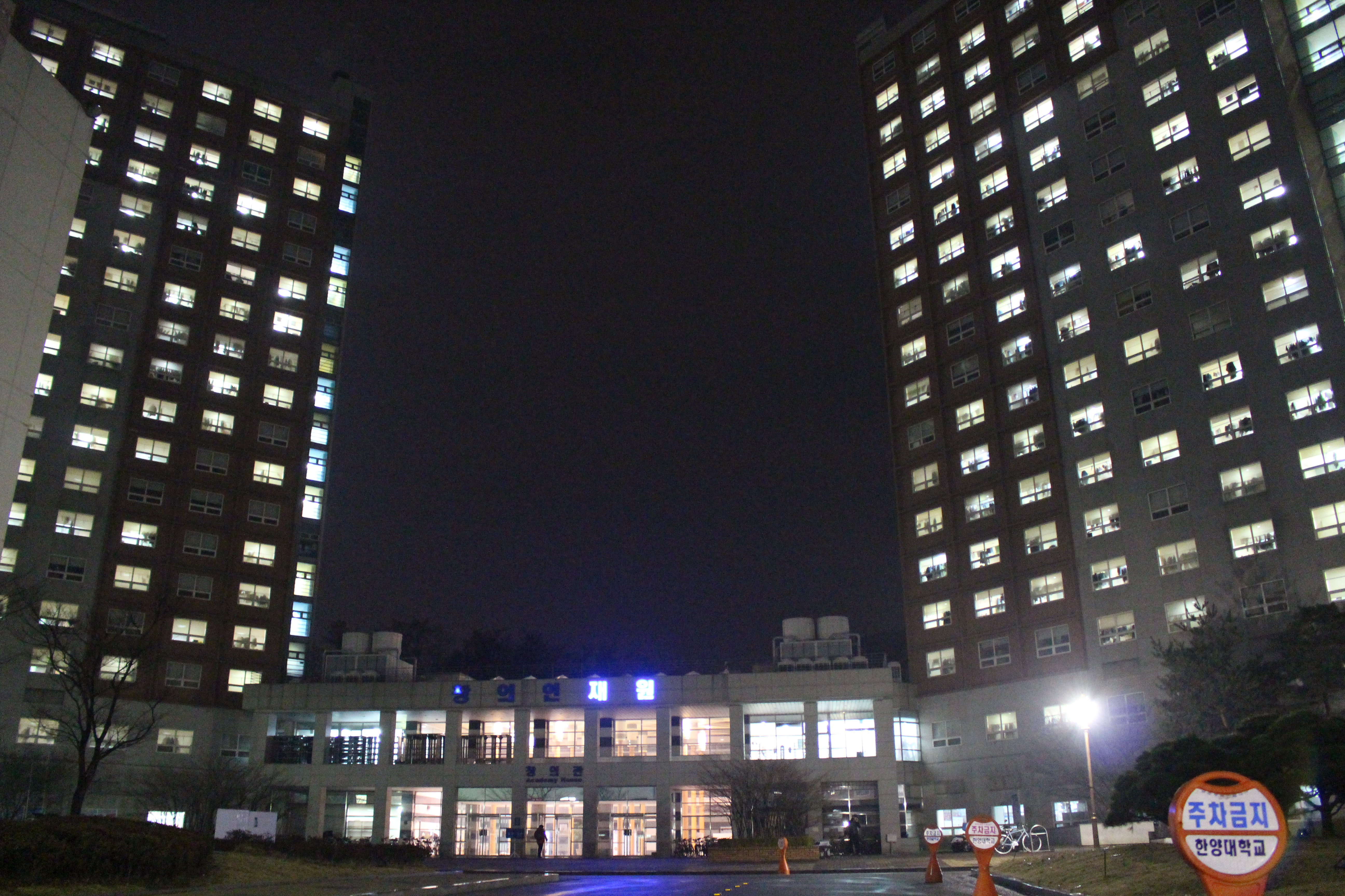 4th building dorm